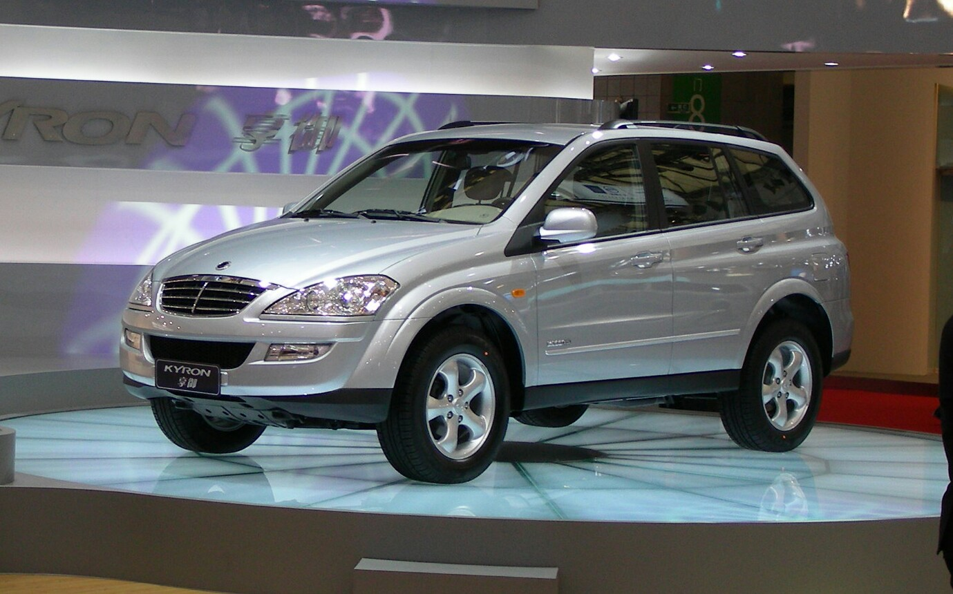 SsangYong Kyron in 2007 Shanghai Motor Show